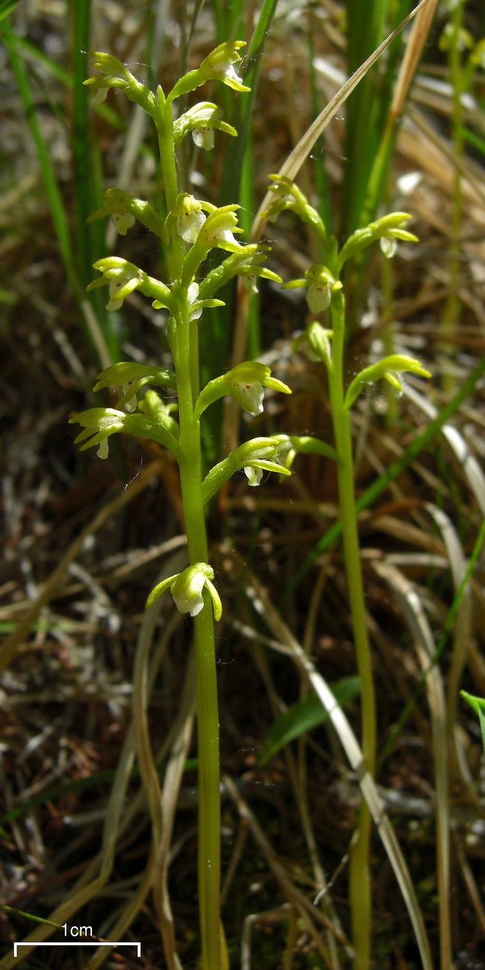 Corallorhiza trifida Chatelain 20090623 (photo #1) near Grande Cache, Alberta